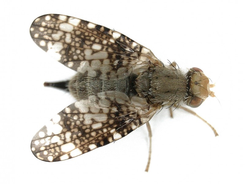 Oxyna parietina (Tephritidae) - (female imago), Arnhem - Schuytgraaf, the Netherlands